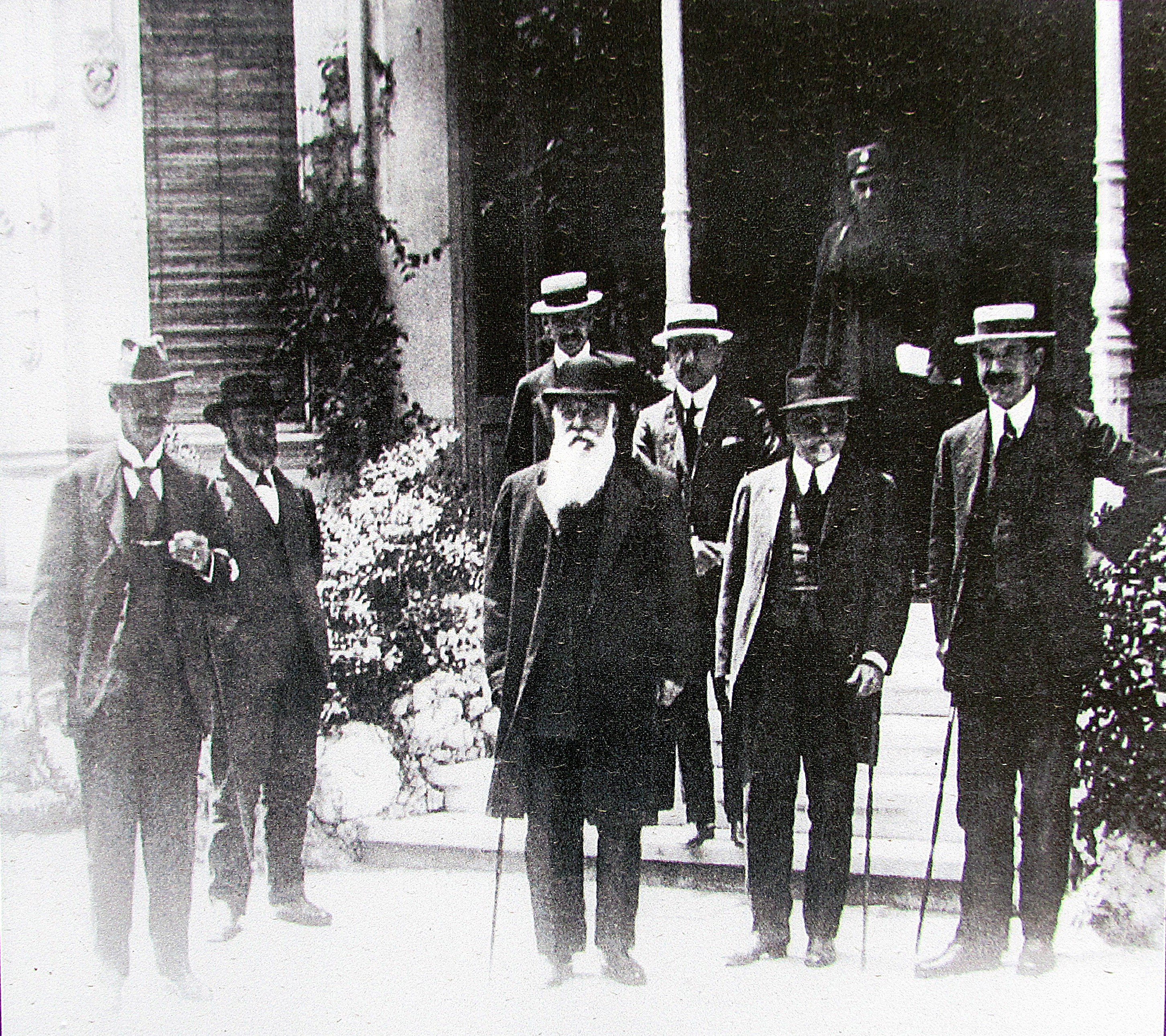 Serbian Government in Corfu, 1917